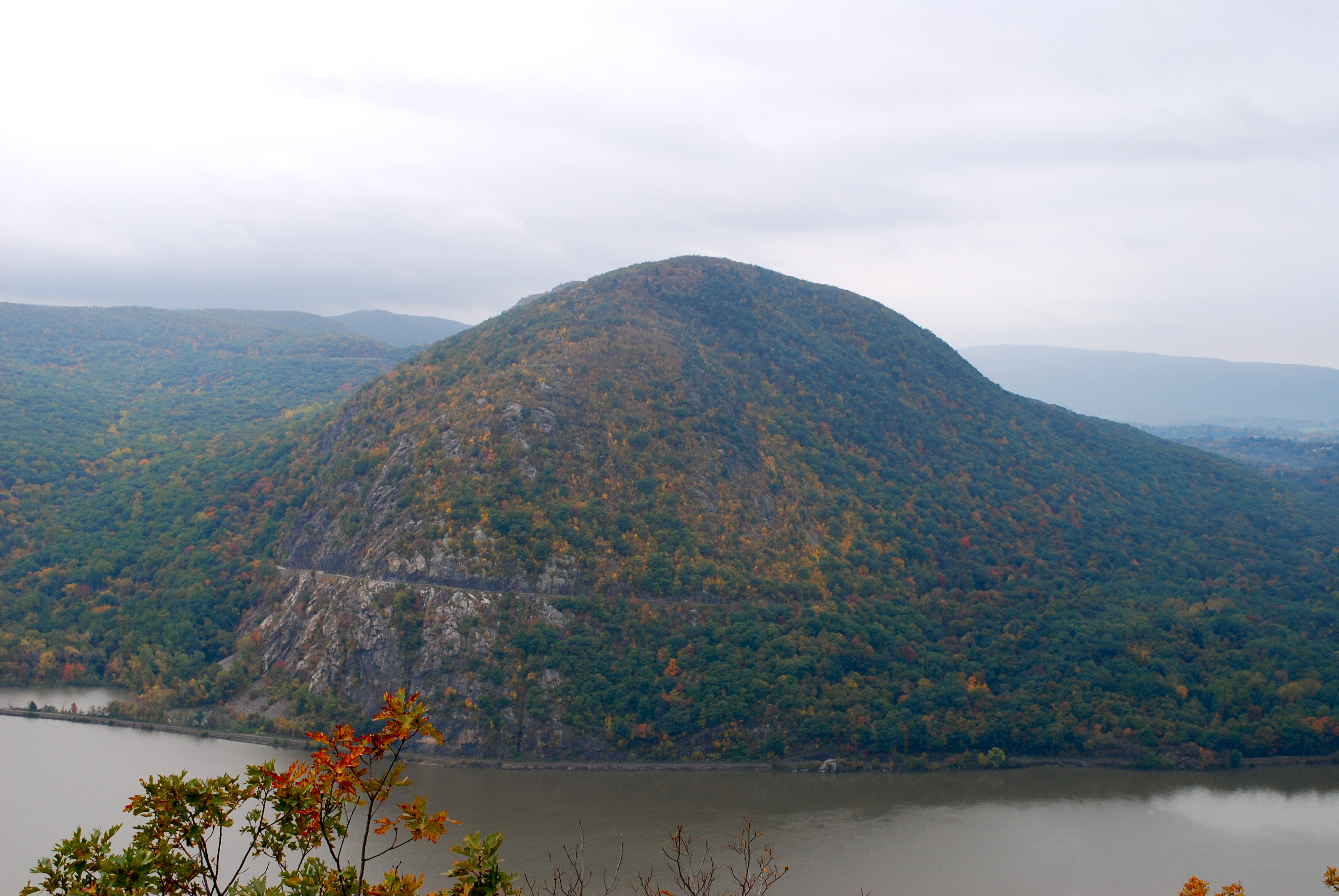 Storm King Mountain from atop Break Neck Ridge. New York State Route 218 is visible on the lower 1/3 of the mountain